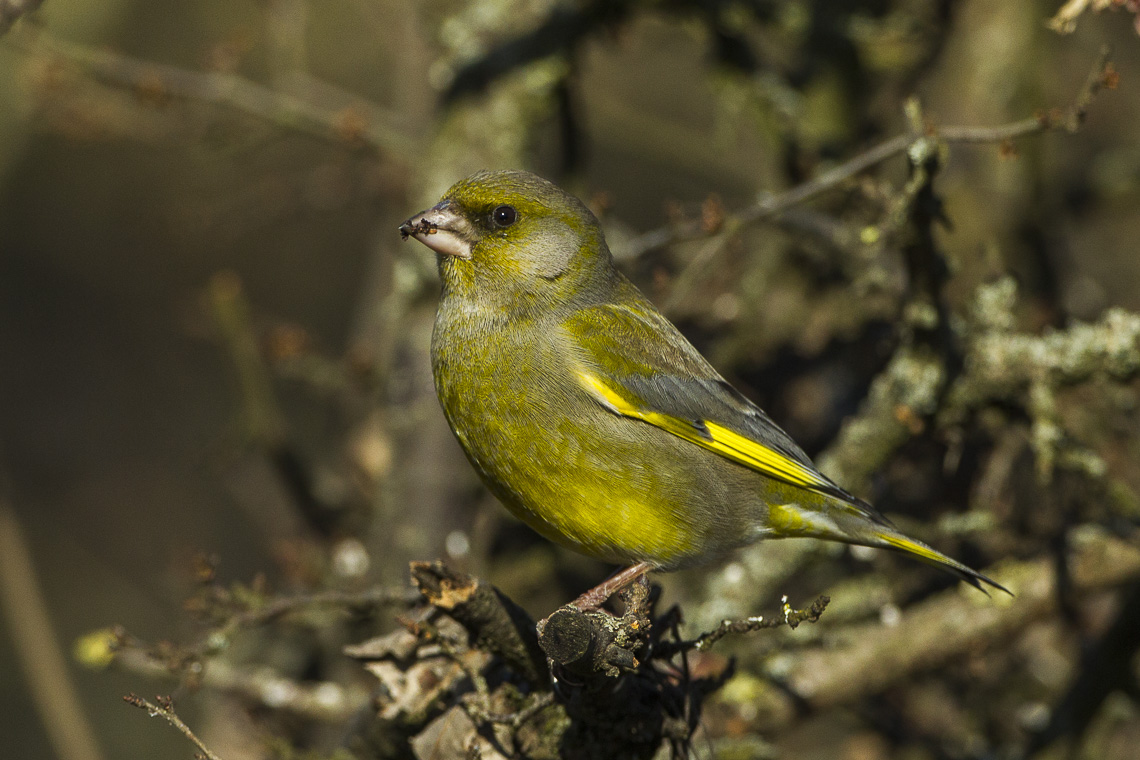 European Greenfinch - Italy_S4E5435